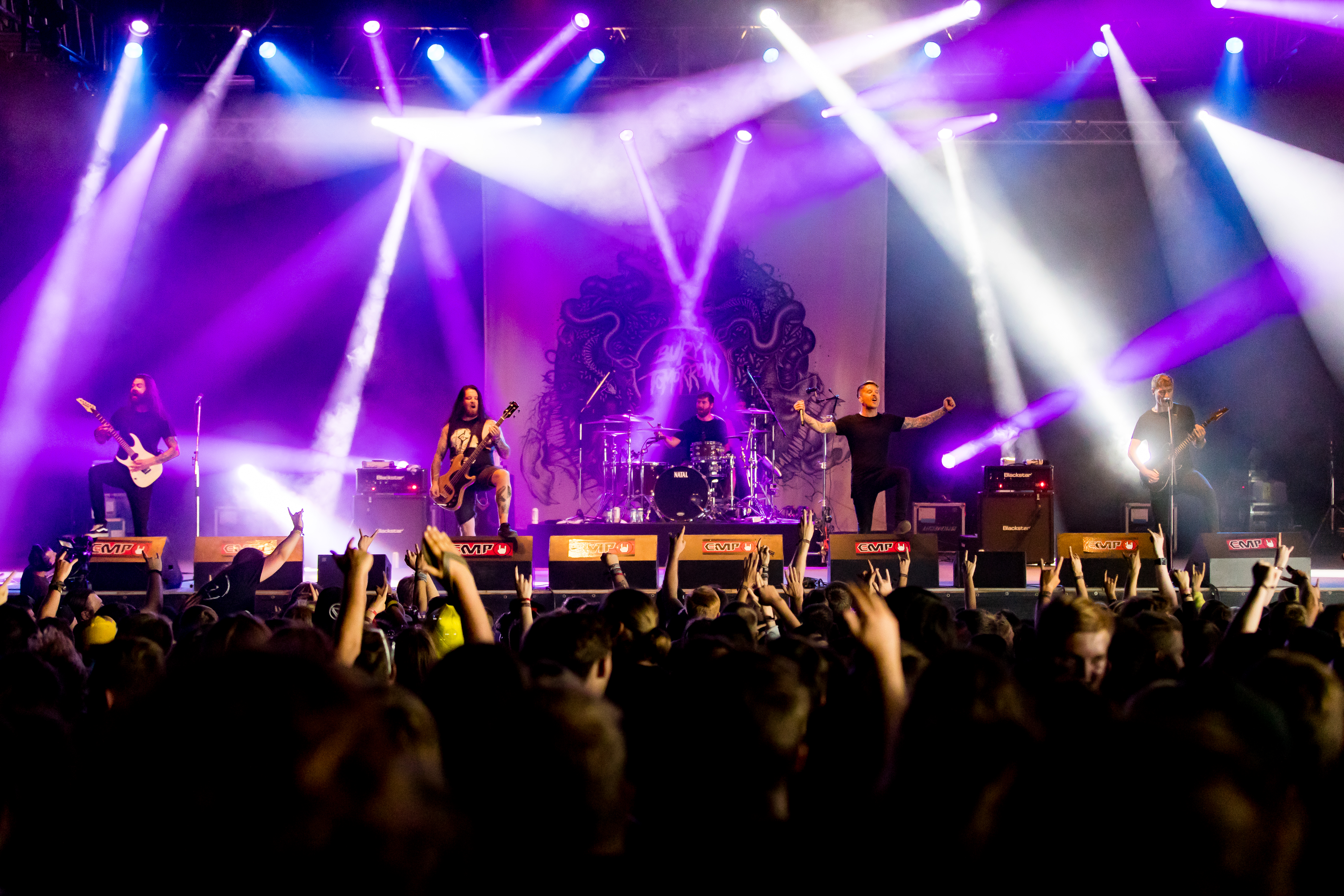 Bury Tomorrow during Summer Breeze 2016 at , Dinkelsbühl, Bayern, Germany on 2016-08-17, Photo: Sven Mandel